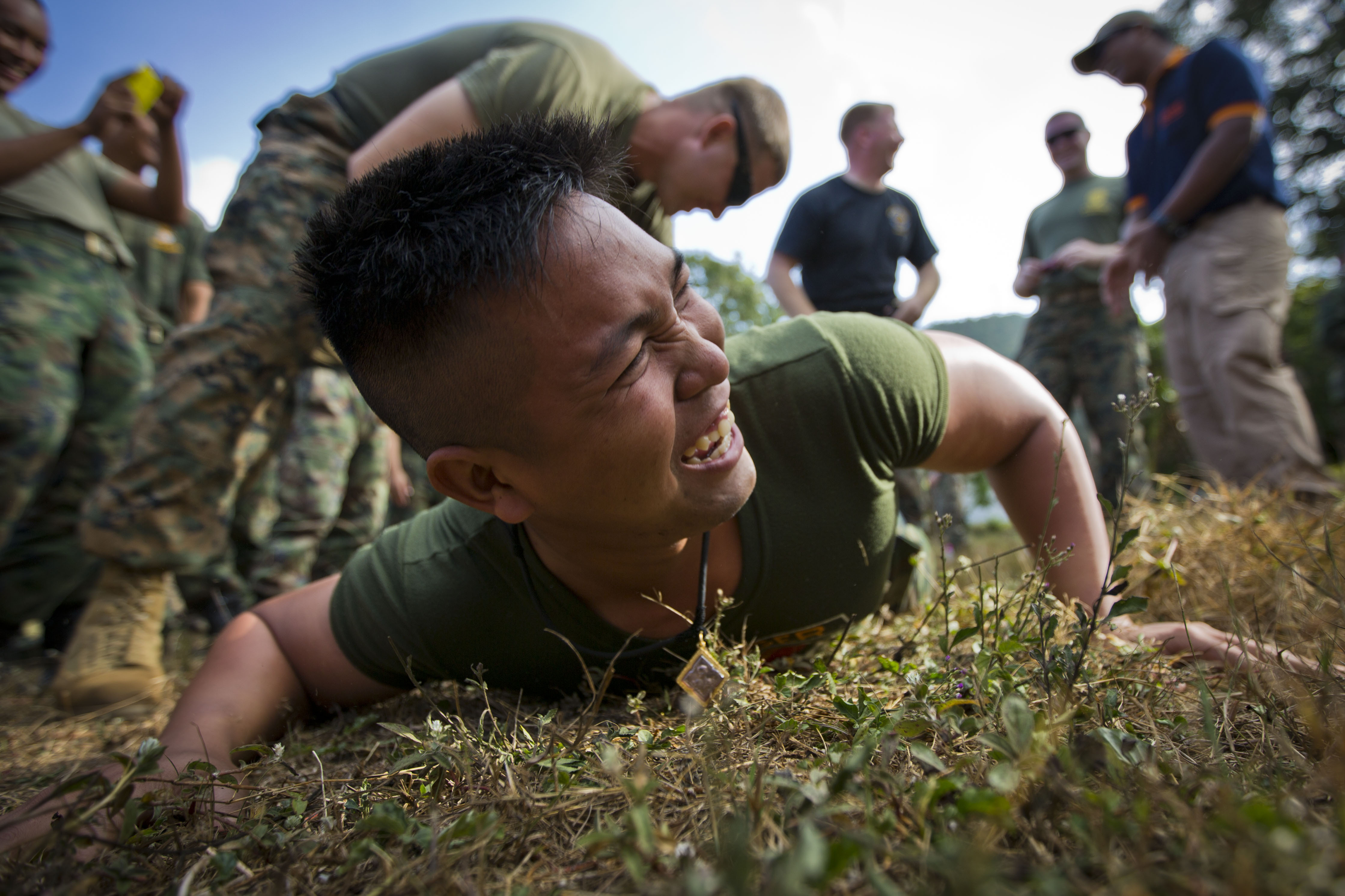 A Thai marine receives an electric shock from a stun gun while participating in a nonlethal weapons training demonstration held by U.S. Marines with the 3rd Platoon, Alpha Company, 3rd Law Enforcement Battalion, III Marine Expeditionary Force (MEF) Headquarters Group, III MEF during Cobra Gold 2014 Feb. 11, 2014, at Camp Samaesan, Rayong, Thailand. Cobra Gold is a regularly scheduled joint/combined exercise designed to ensure regional peace and strengthen the ability of the Royal Thai Armed Forces to defend Thailand or respond to regional contingencies.